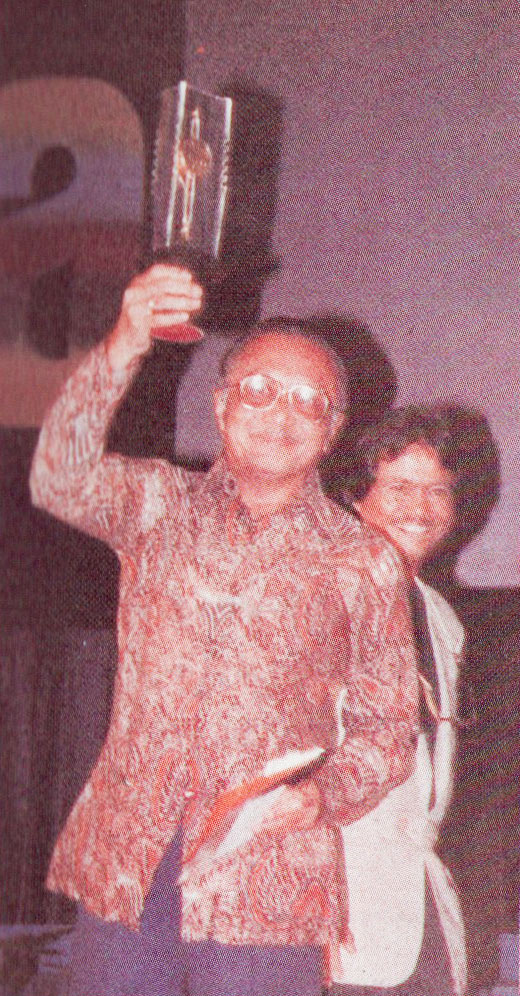 Asrul Sani receiving Citra Award for Best Screenplay for Bawalah Aku Pergi at the 1982 Indonesian Film Festival in Jakarta